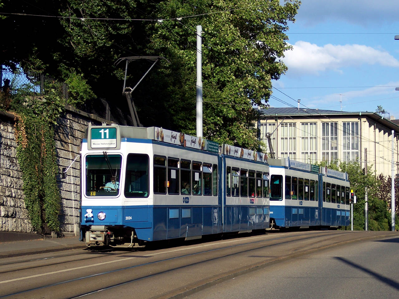 Trams in Zürich: A route 11 Be 4/6 "Tram 2000" set heads down Kreuzbühlstrasse on its way to Messe/Hallenstadion.